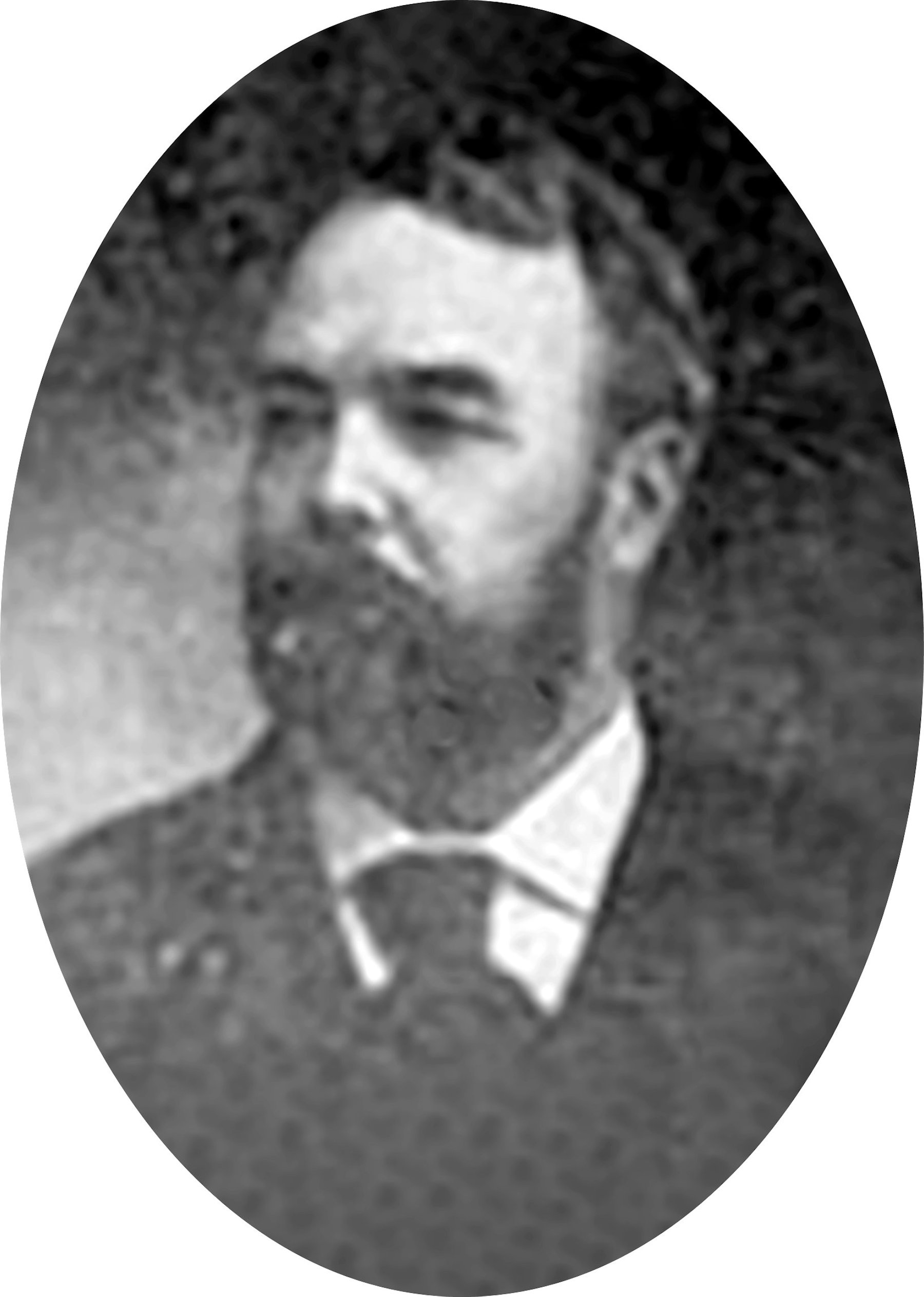 Isaac H. Carmin MoH winner